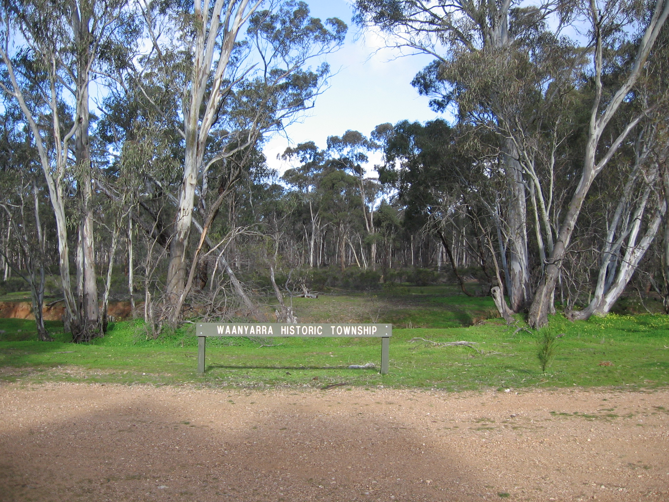 The site of the historic township of Waanyarra, Victoria